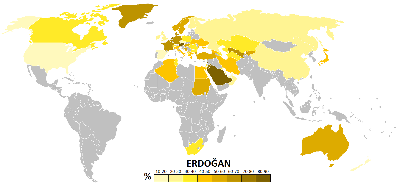 Map showing the distribution of overseas vote for Recep Tayyip Erdoğan in the 2014 Turkish presidential election. Original version by Roke is here.